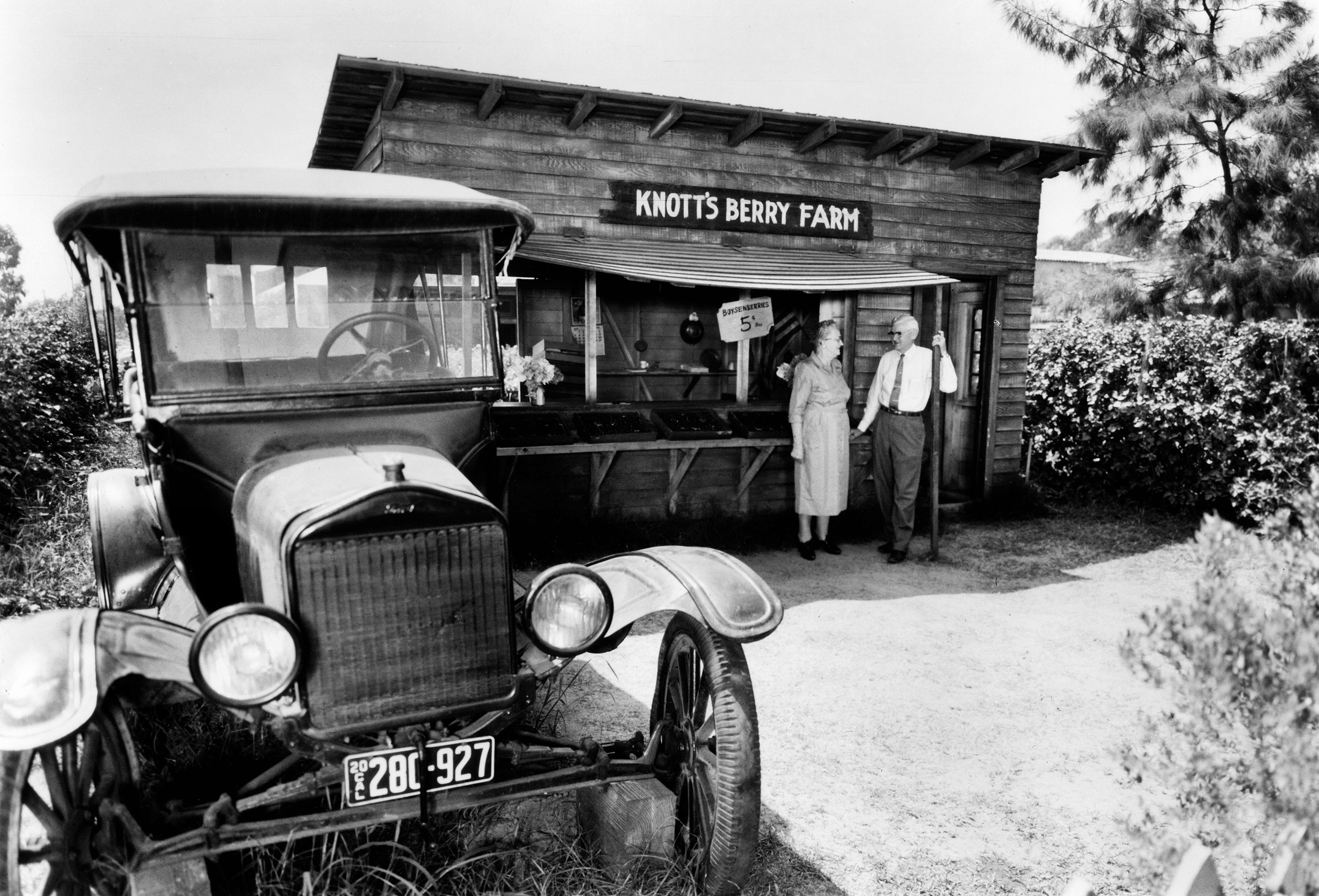 Walter and Cordelia Knott in front of a ca. 1920's version of their berry stand that was on display at Knott's Berry Farm in Buena Park, California.